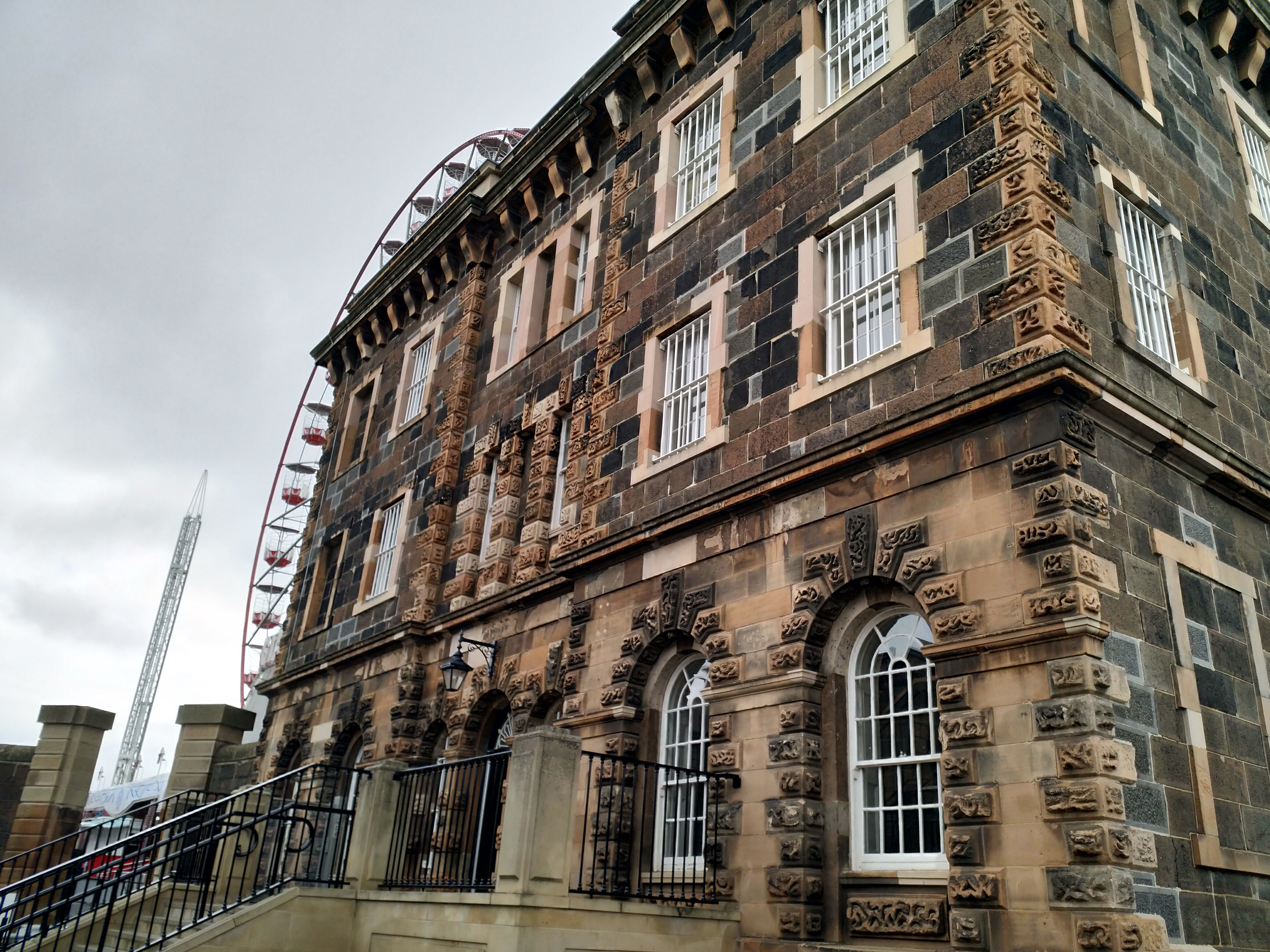 The front of Crumlin Road Goal